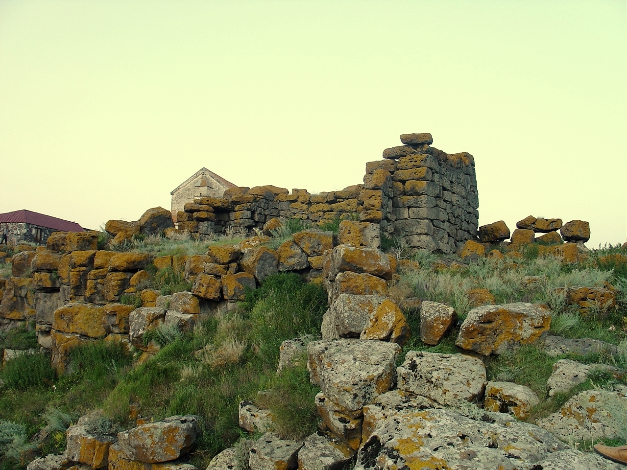 Saro Cyclops